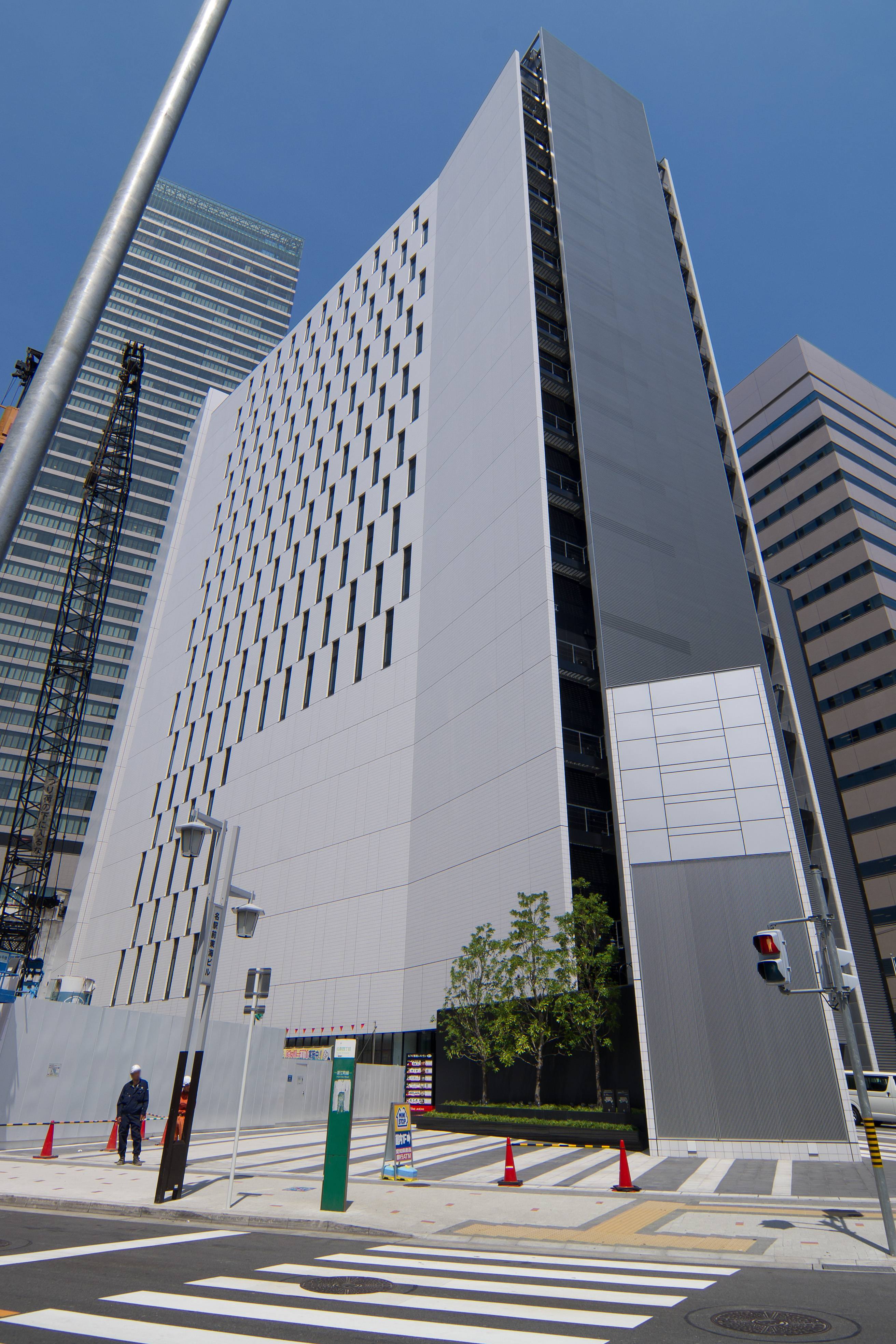 Aichi Industry & Labor Center (WINC AICHI)